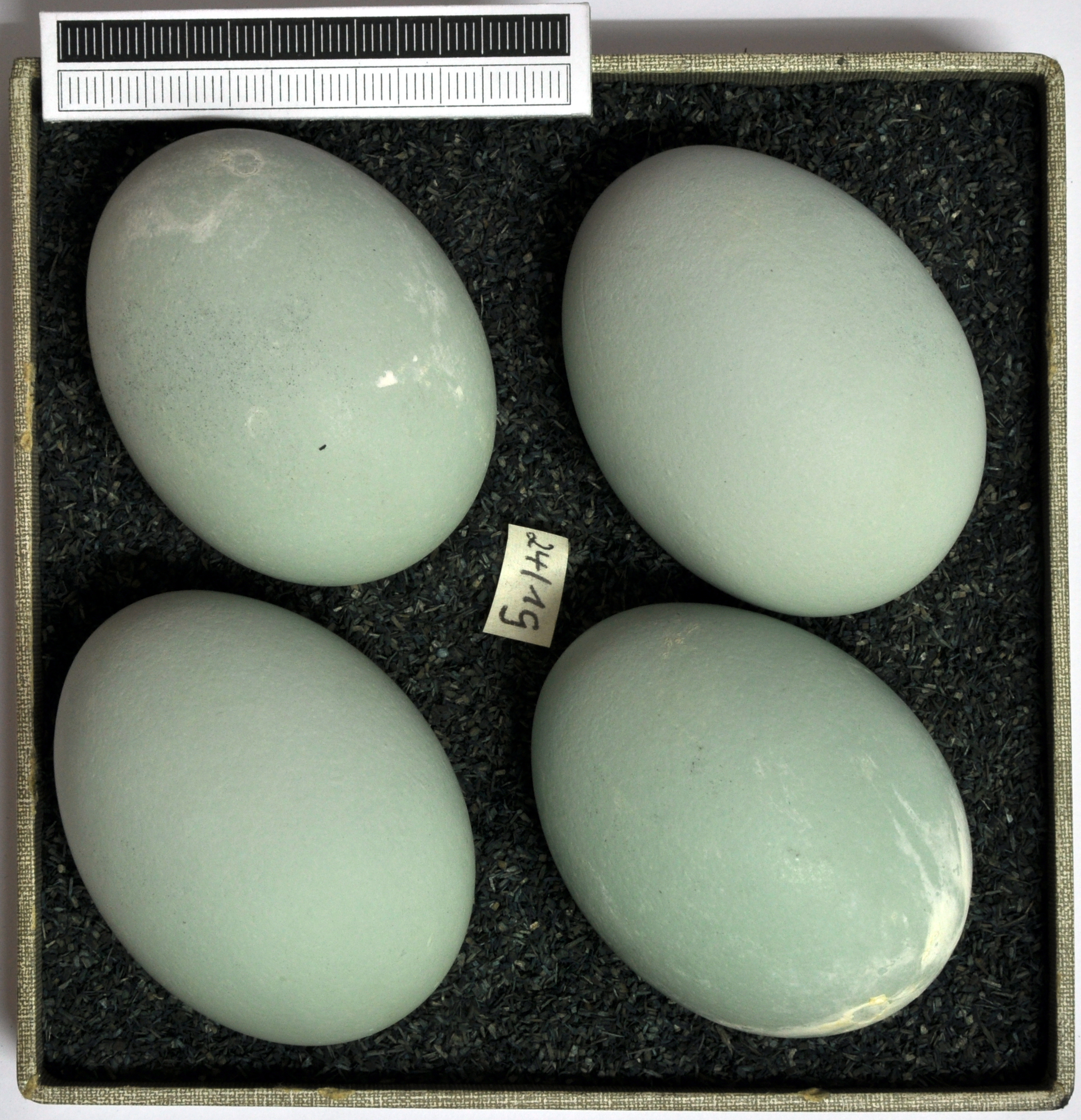 Grey heron Ardea cinerea, egg, Coll. Museum Wiesbaden